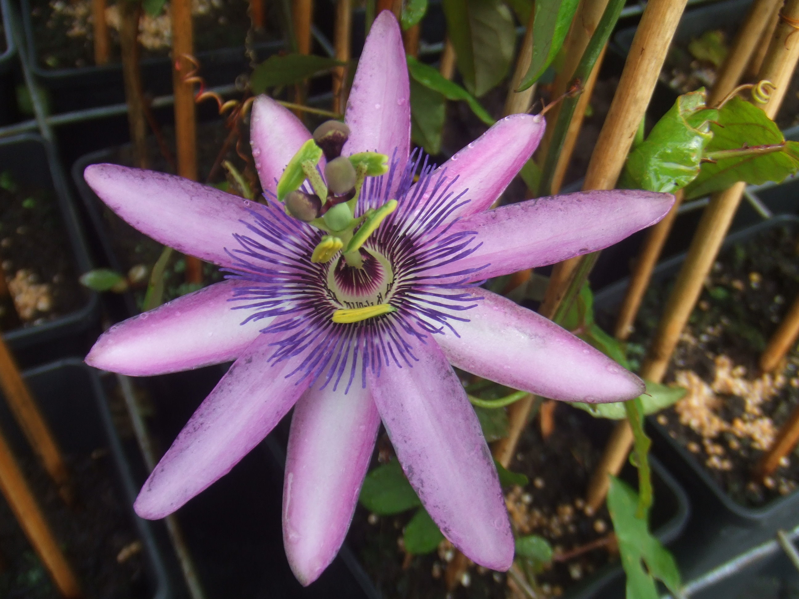 Passiflora ×kewensis 'Amethyst' (Passiflora kermesina × Passiflora caerulea)